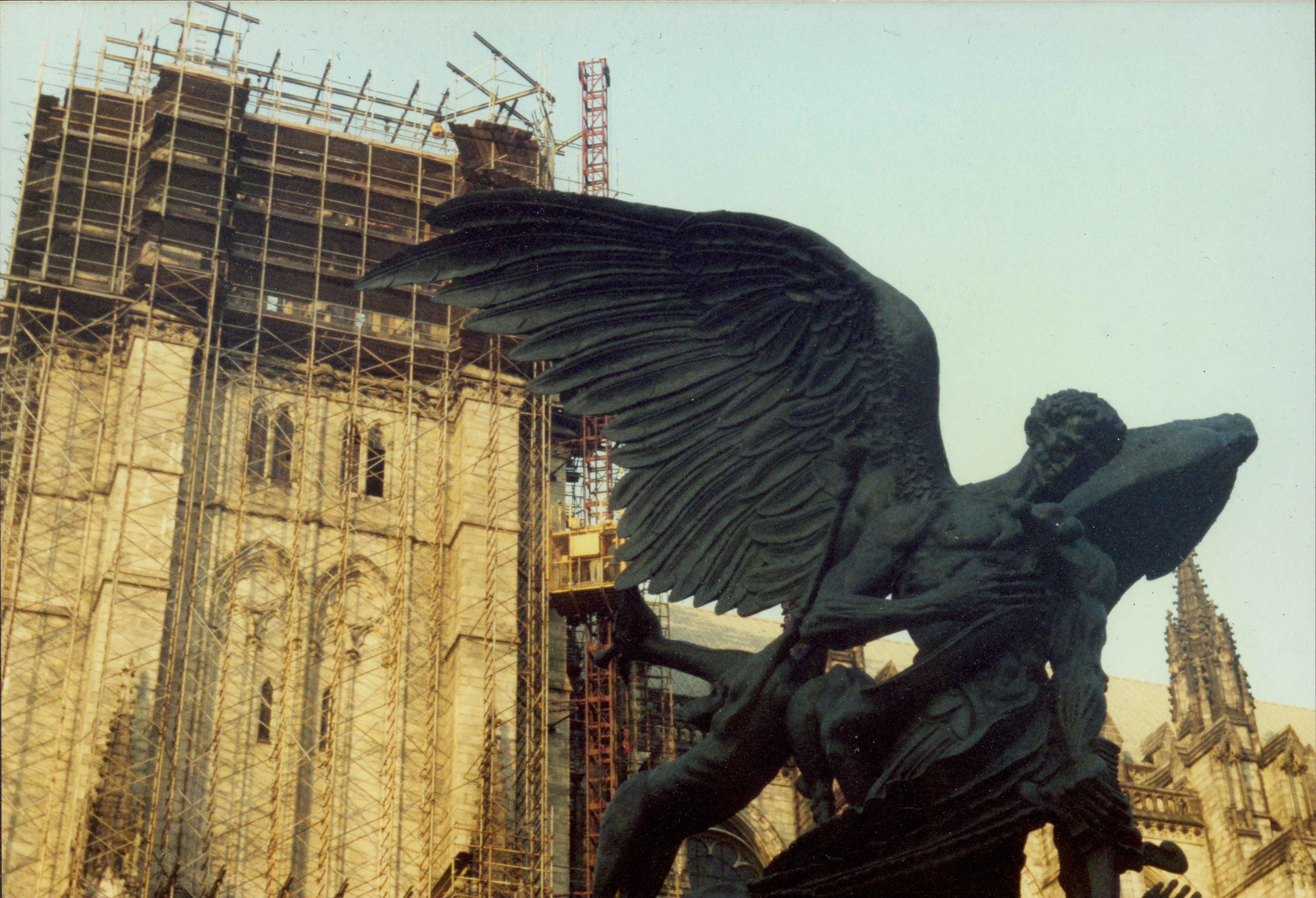 Anglican cathedral